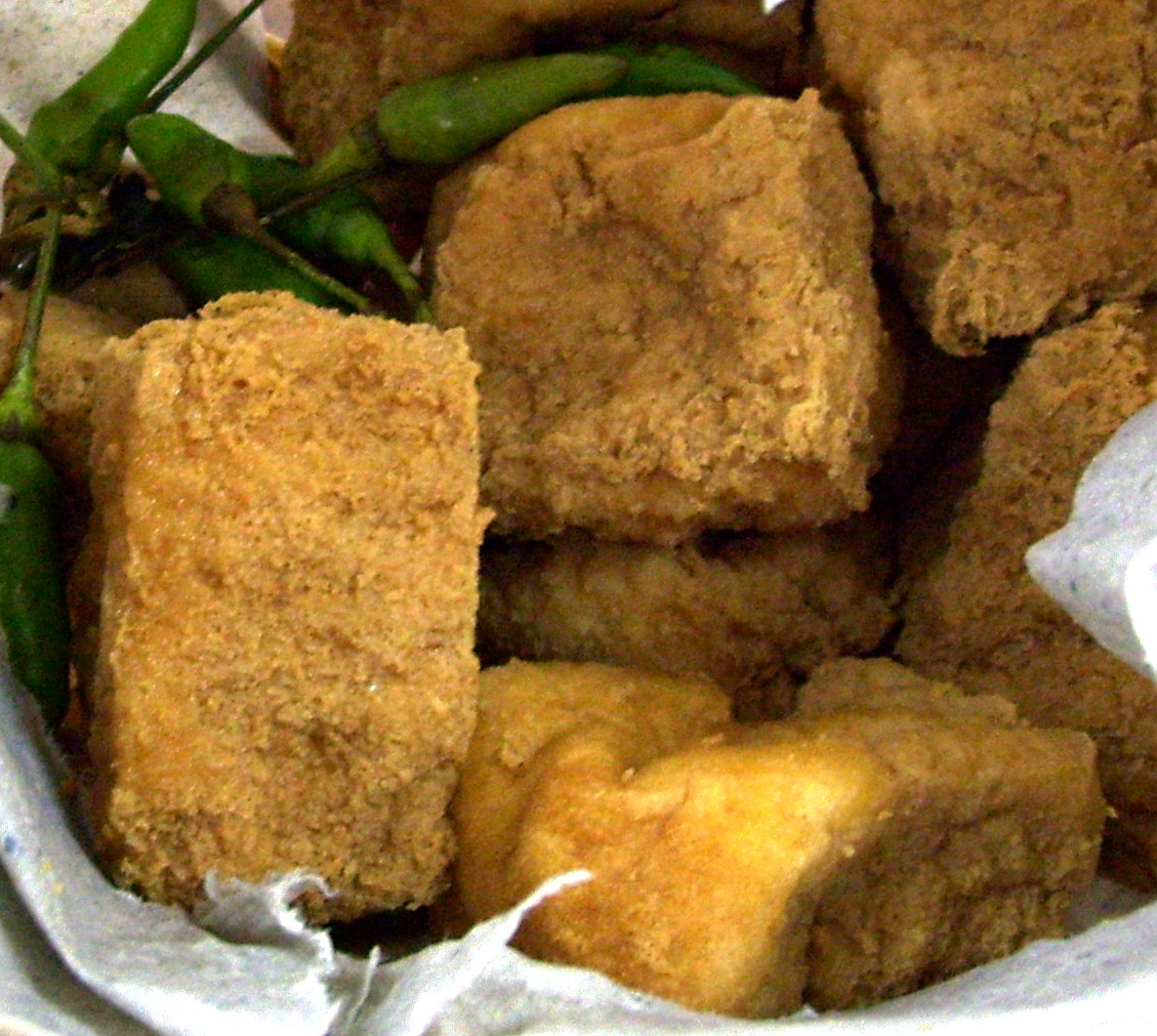 Sumedang tofu, snack from Sumedang, West Java, Indonesia